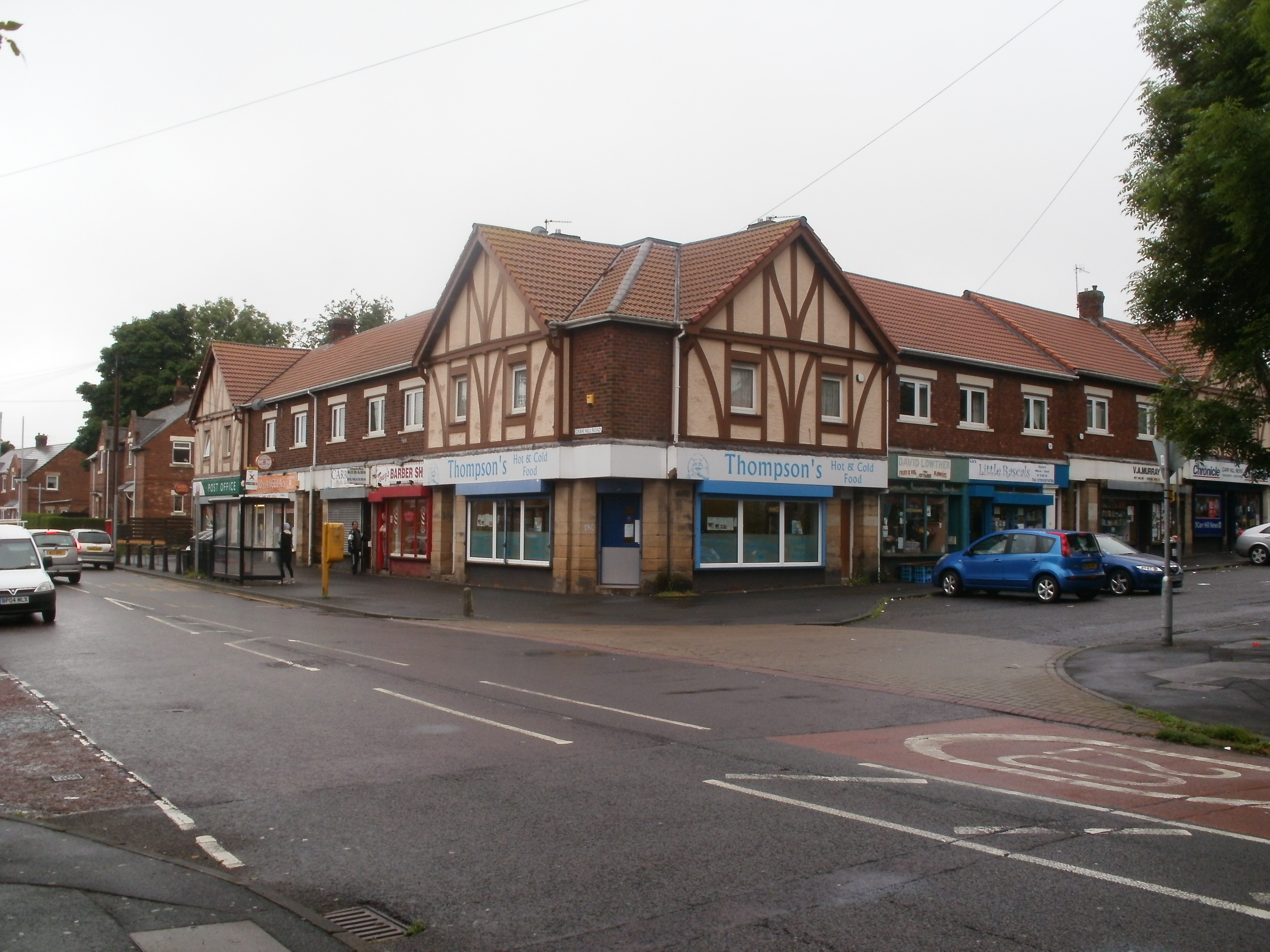 The small commercial area at the corner of Pottersway and Carr Hill Road, Gateshead